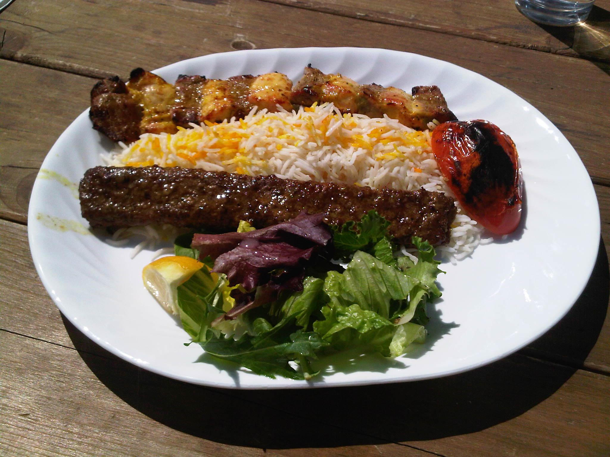 Bakhtyari (above), an Iranian form of kebab.